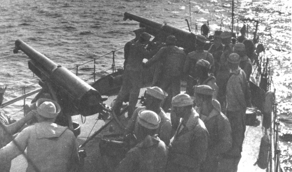 75 mm guns of the Polish artillery training ship ORP Mazur (former torpedo boat)